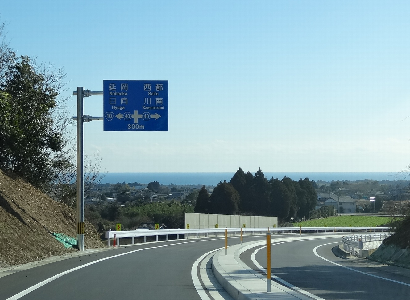 Miyazaki Prefectural Road No.303 Tsuno Interchange Line (Tsuno Town, Miyazaki Prefecture, Japan)